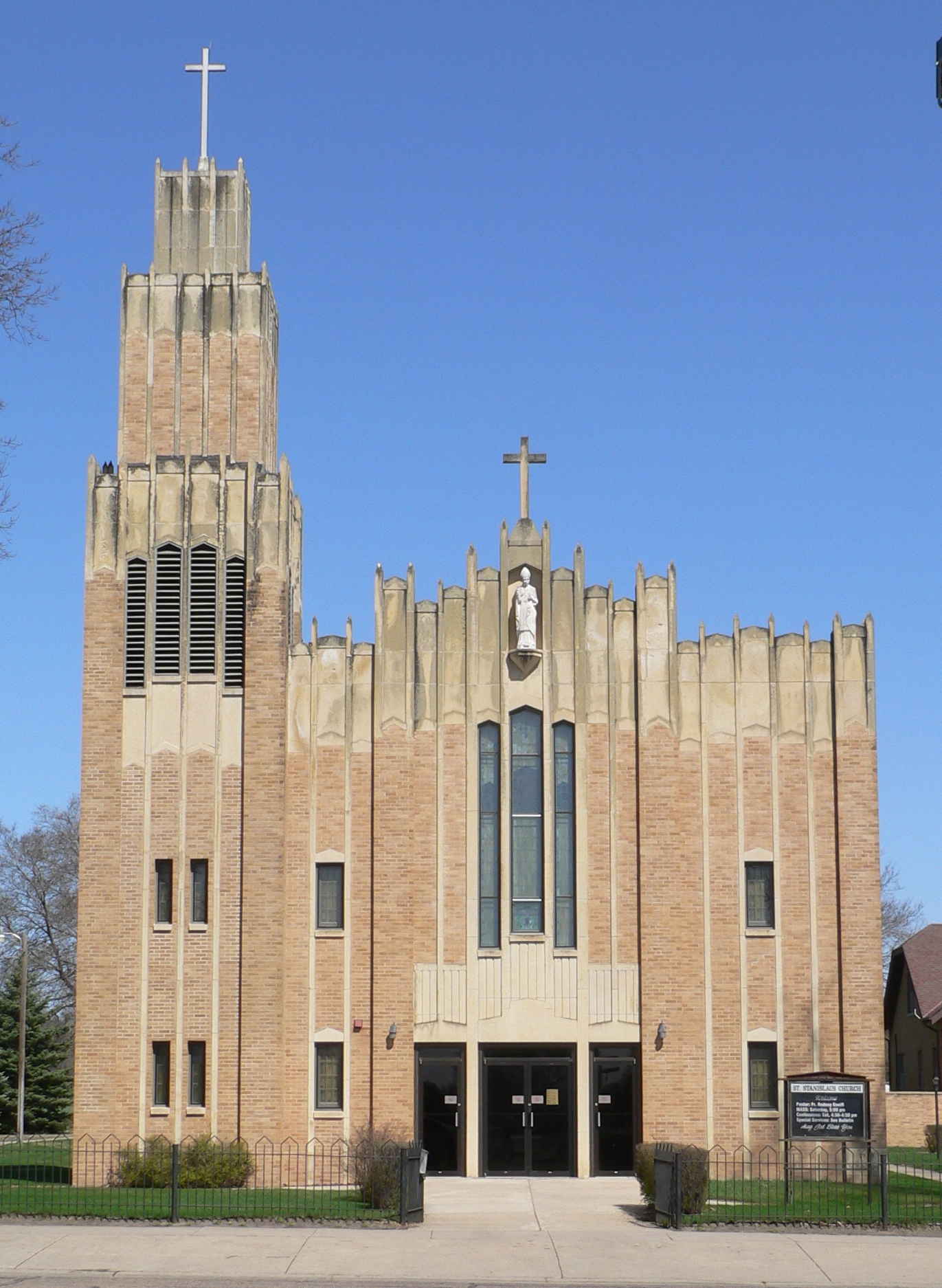 St. Stanislaus Church in Duncan, Nebraska; seen from the south. The Art Deco building was constructed in 1939.